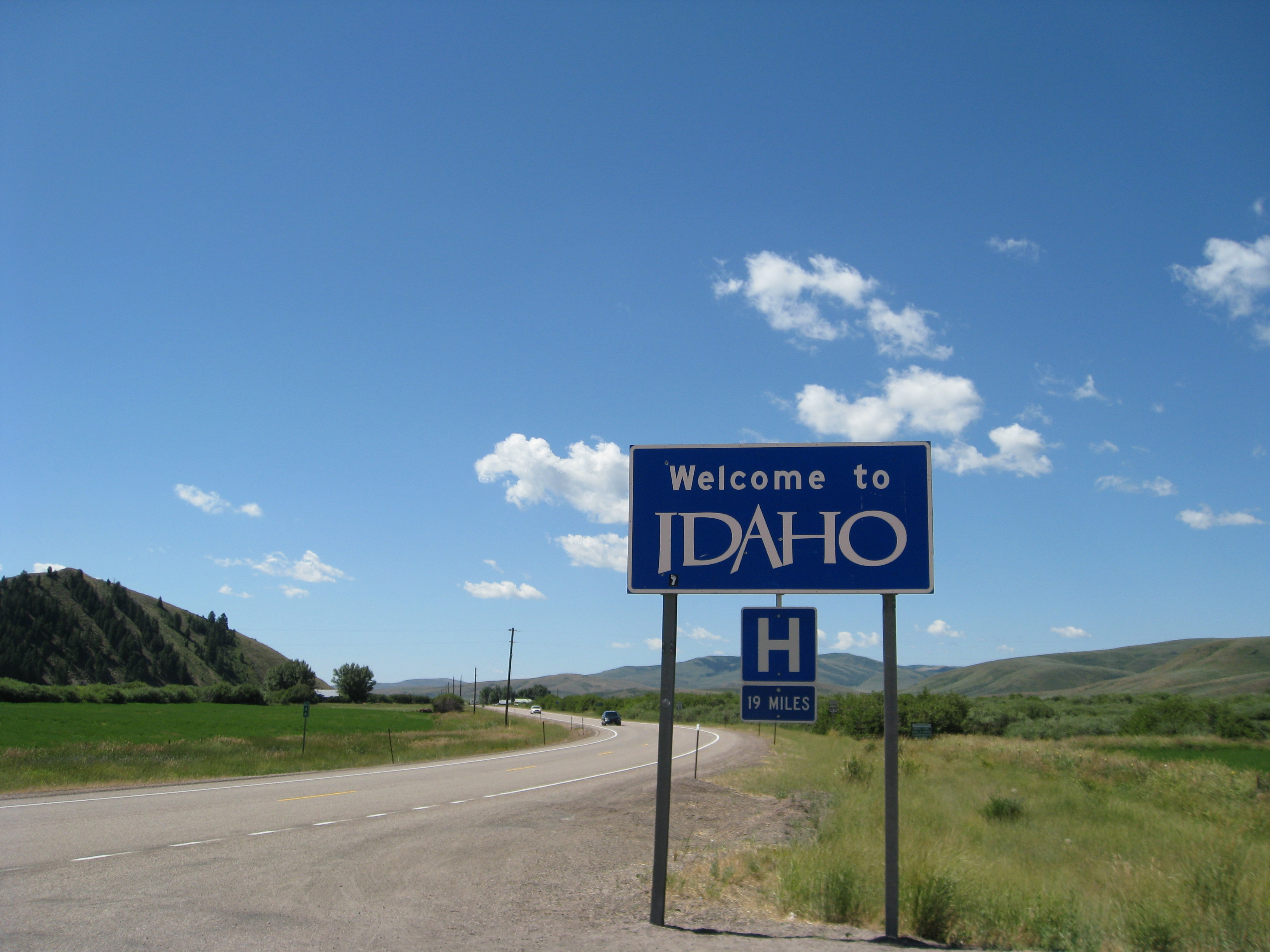 taken by me, August 14th, 2011 on US Highway 89 just inside of Bear Lake County, Idaho